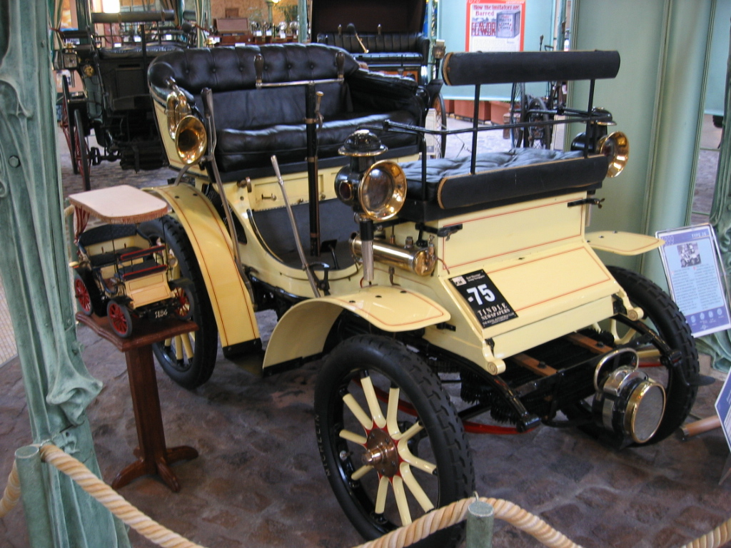 1900 Peugeot Type 26 at the Musée de l'Aventure Peugeot in Sochaux, France. Two-cylinder 1,056 cc (64.4 cu in) engine of 5 hp (3.7 kW); top speed 35 km/h (22 mph). (Car's year of 1900 visible on updated museum placard in these newer photos of the same car.)